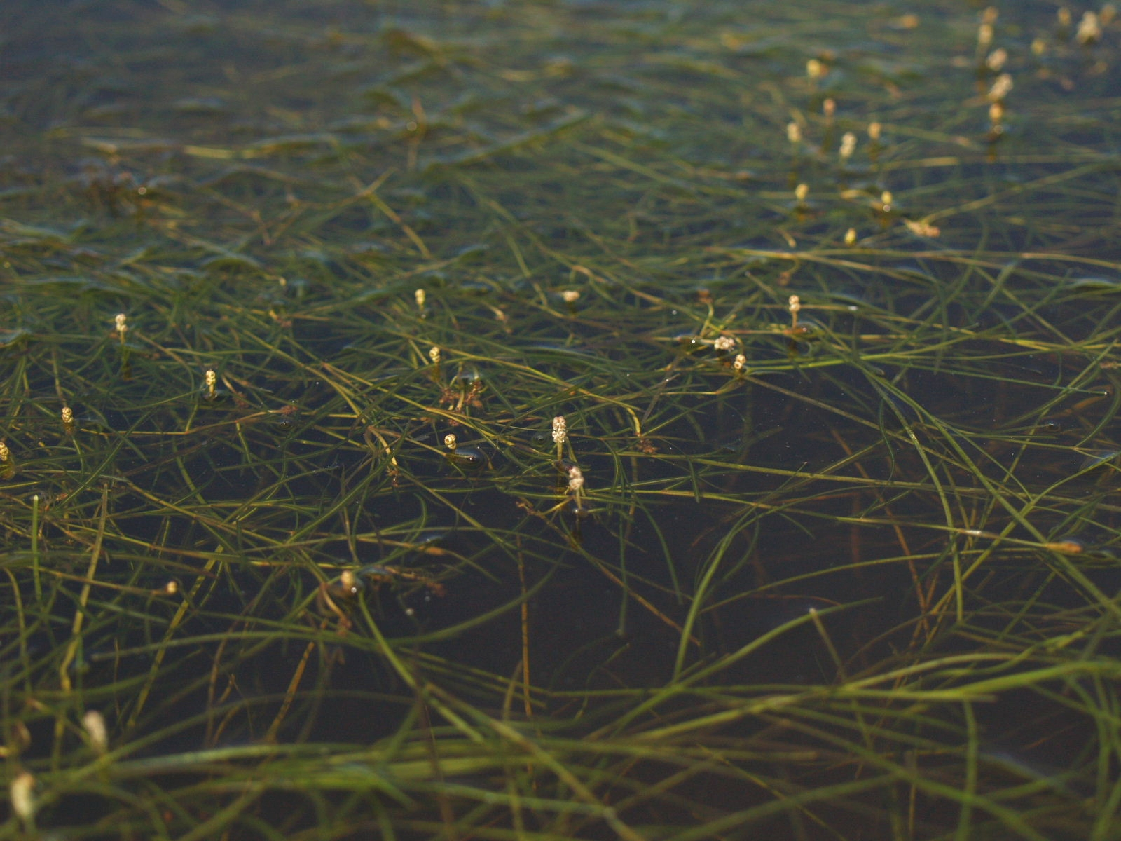 Yu Ito and Anna Skriptsova (2008) Aquatic plant research in Russian Far-East. Bulletin of Water Plant Society, Japan 89: 34-42.